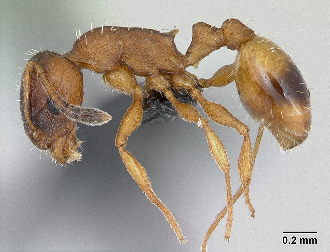 Profile view of ant Temnothorax unifasciatus specimen casent0173188.